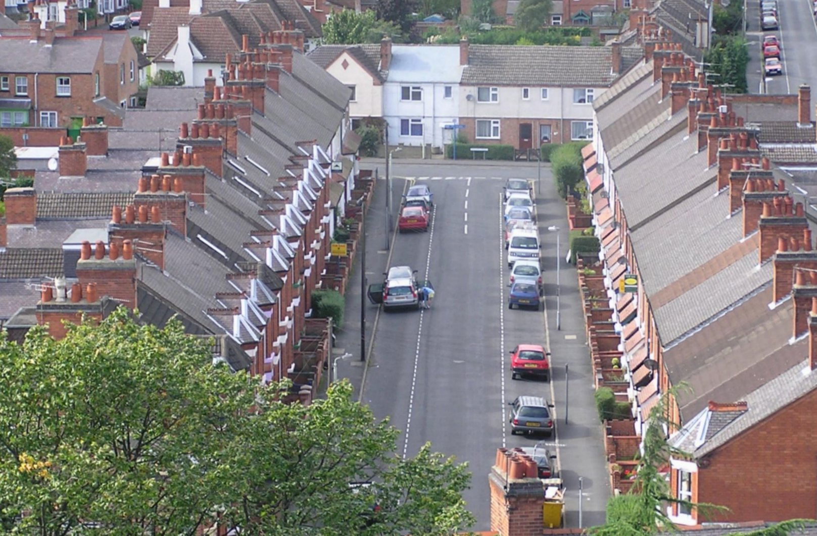 A photo of a street in Loughborough, taken from the town's Carillon tower.